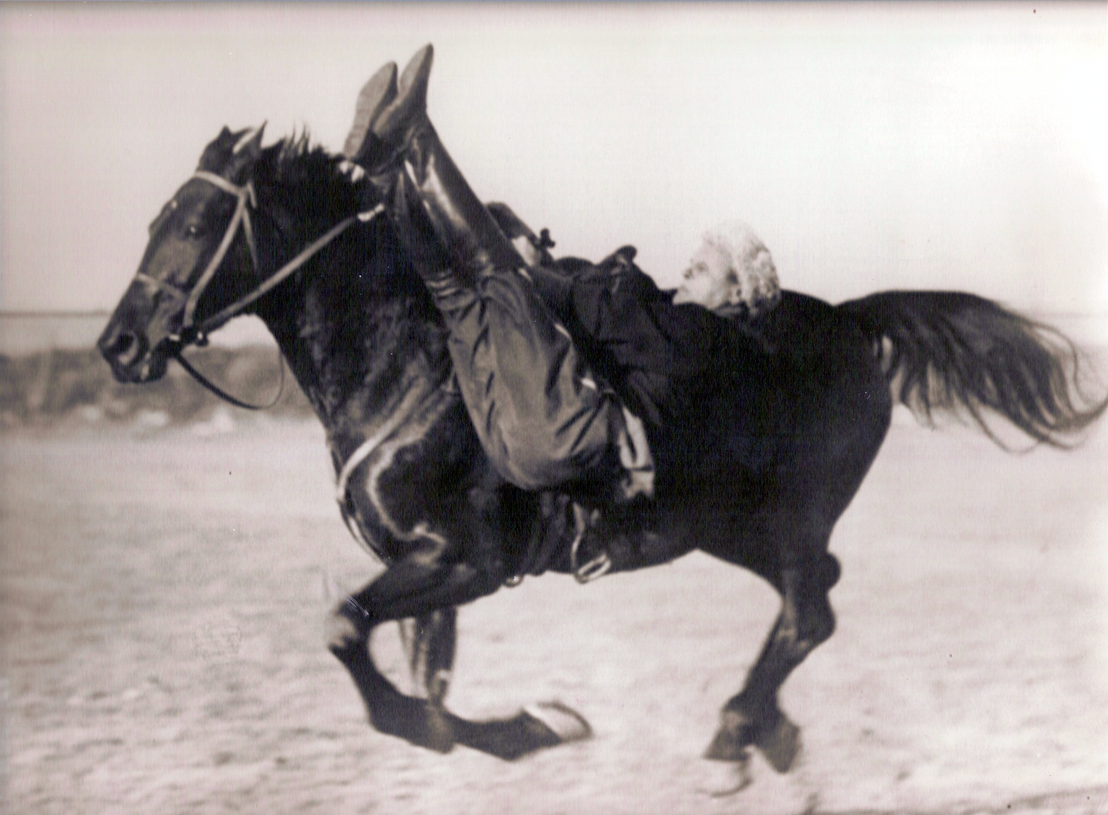 Cossack doing a riding trick called "Hopping"